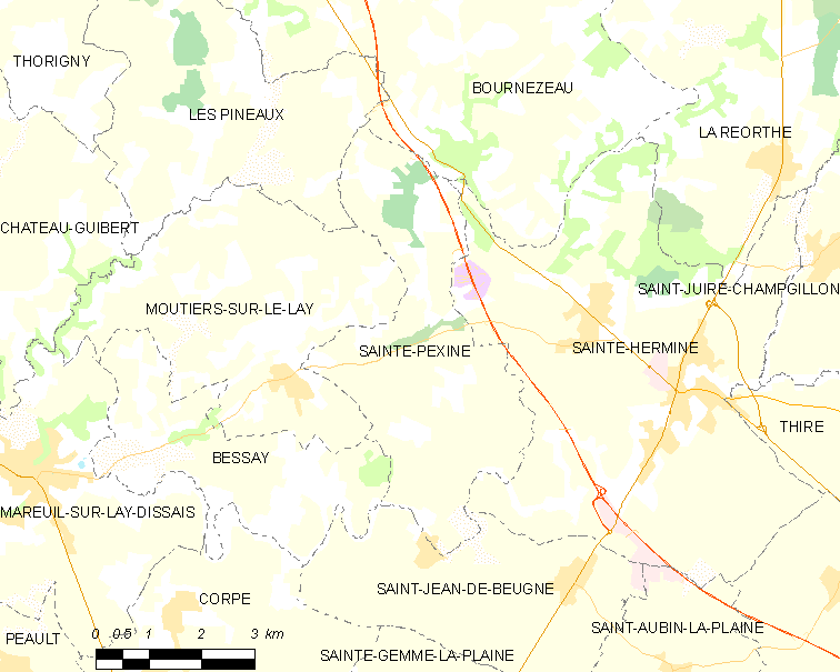 Map of French municipality Sainte-Pexine